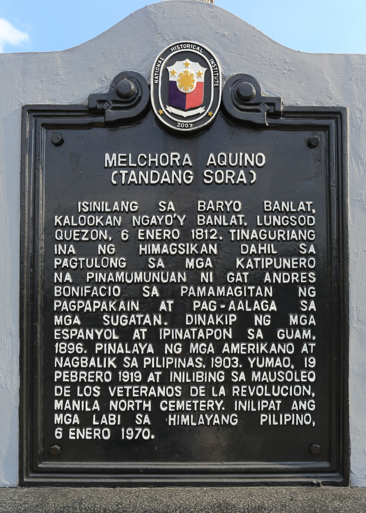 Tandang Sora National Shrine Marker